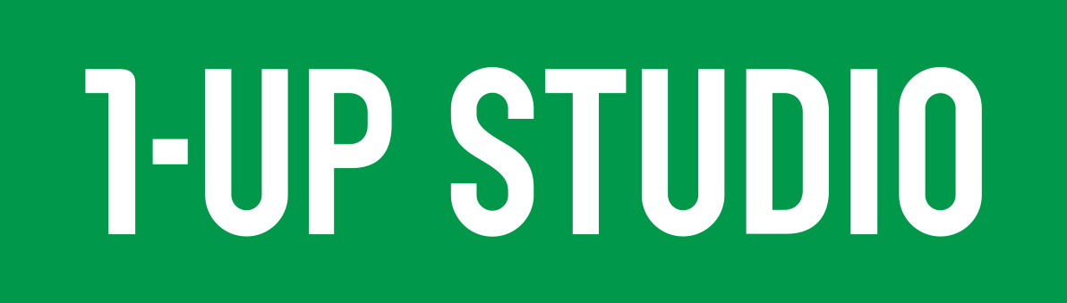 1-Up Studio logo